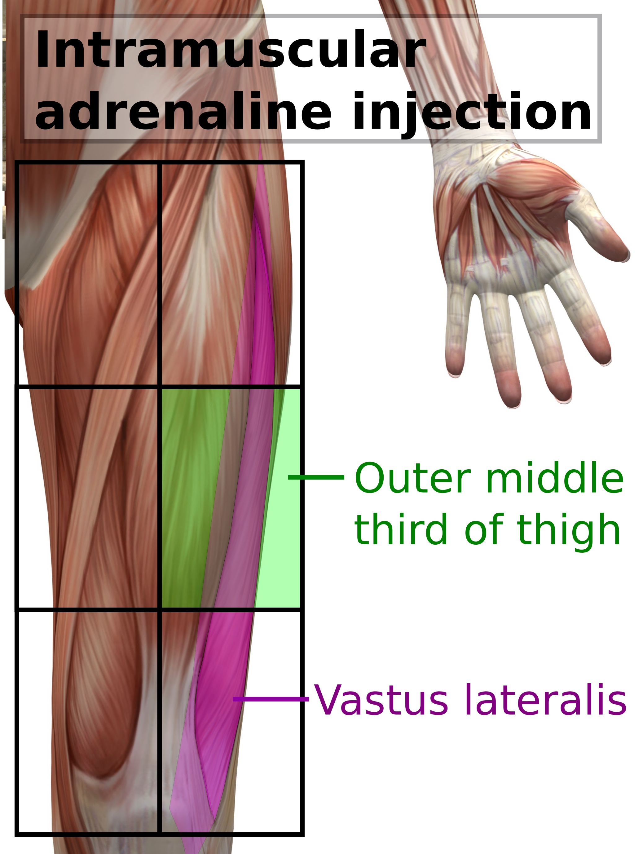 Intramuscular site of adrenaline injection, including epinephrine autoinjector: In the outer middle third of the thigh, preferably into the vastus lateralis muscle.